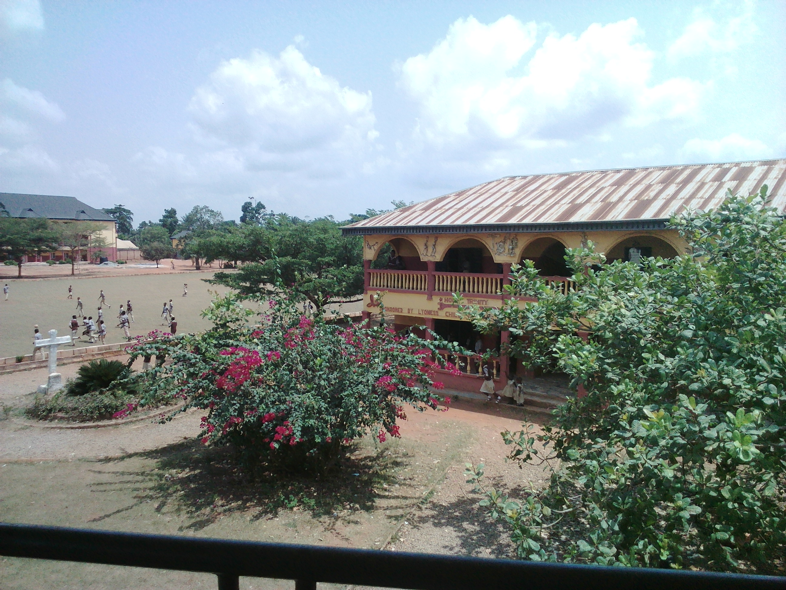 This is an image with the theme "Play" from: Nigeria